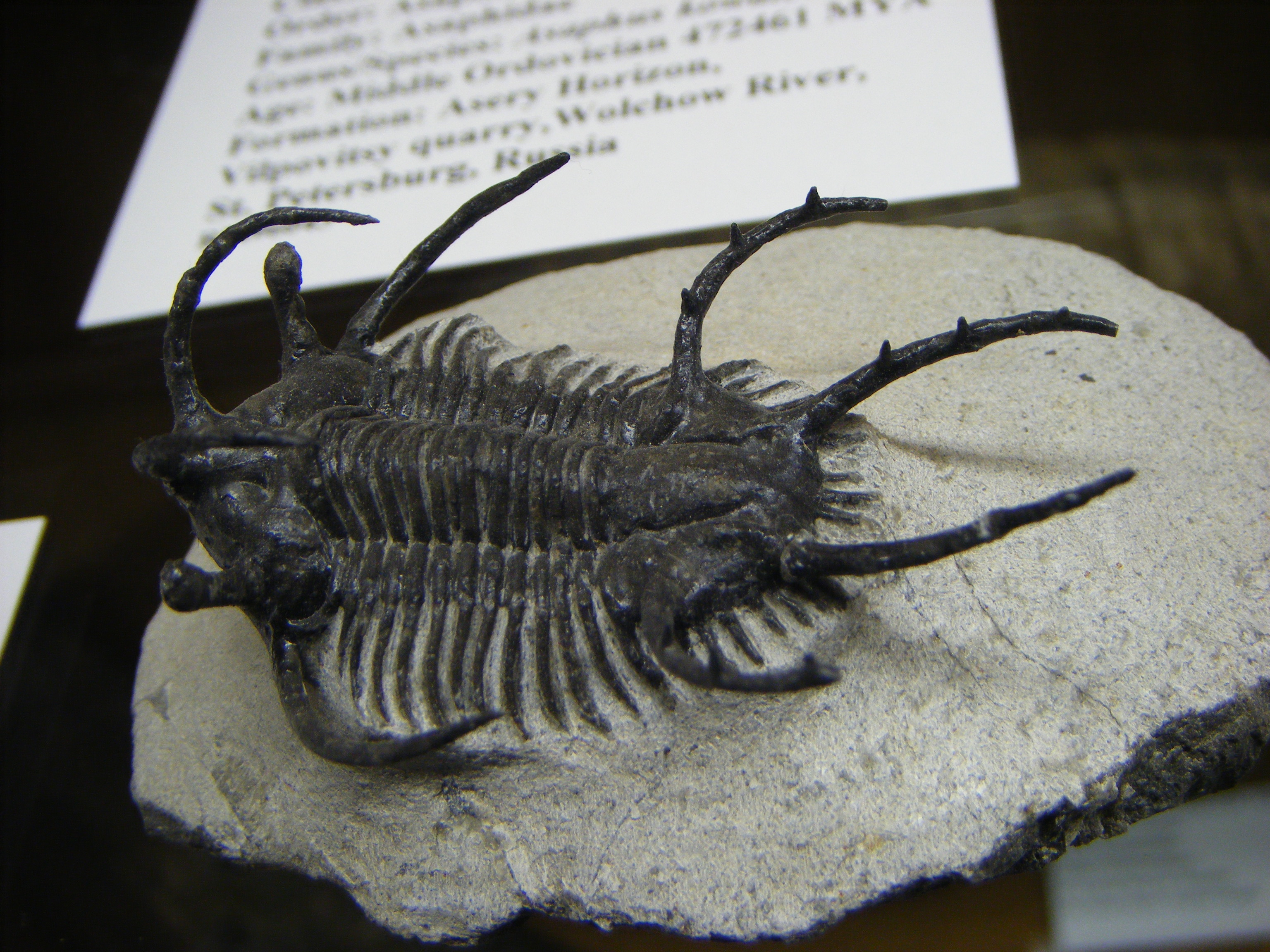 Ceratarges species trilobite from Asery Hortzon Formation, Wolchow River, St Petersburg, Russia